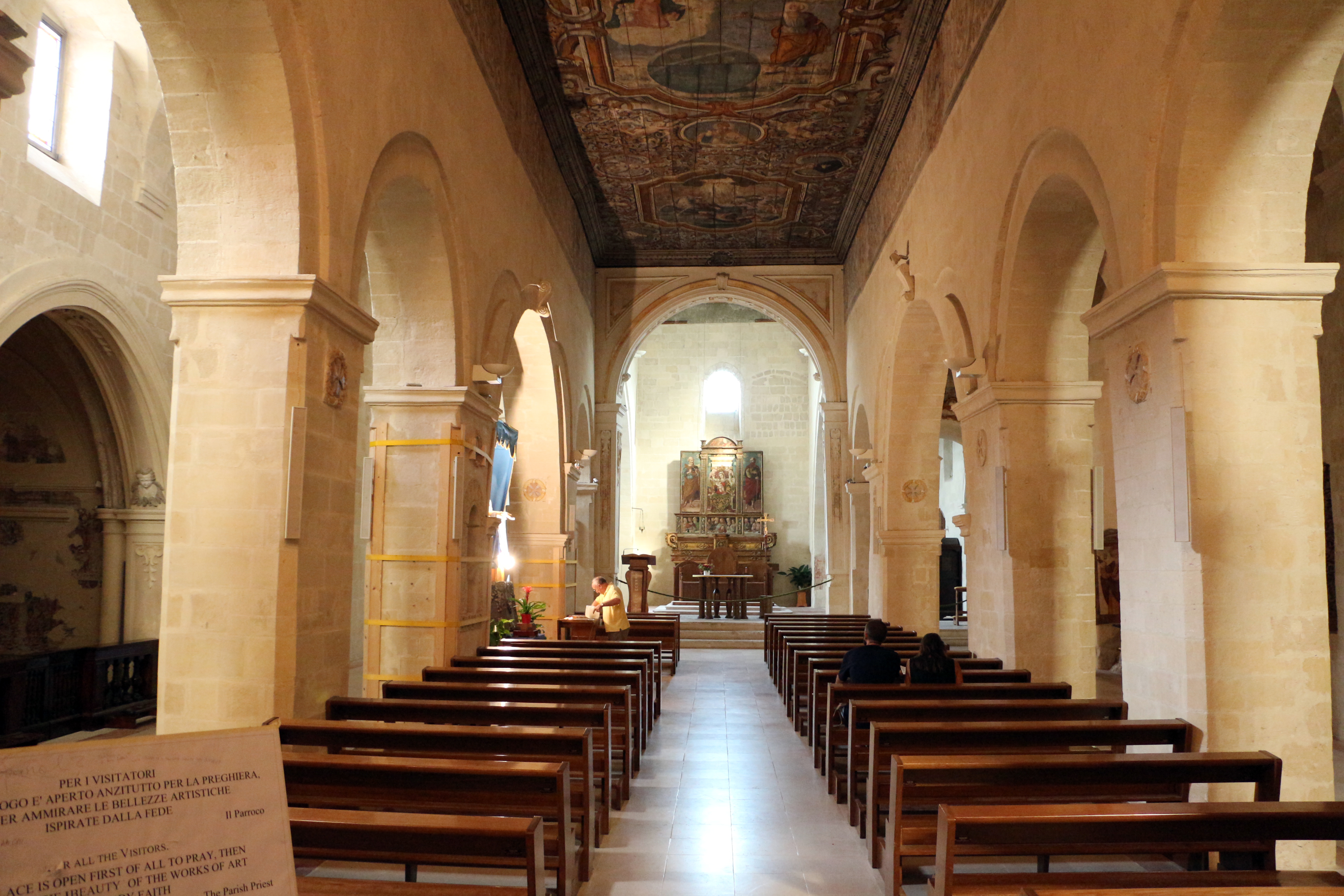 San Pietro Caveoso (Matera)